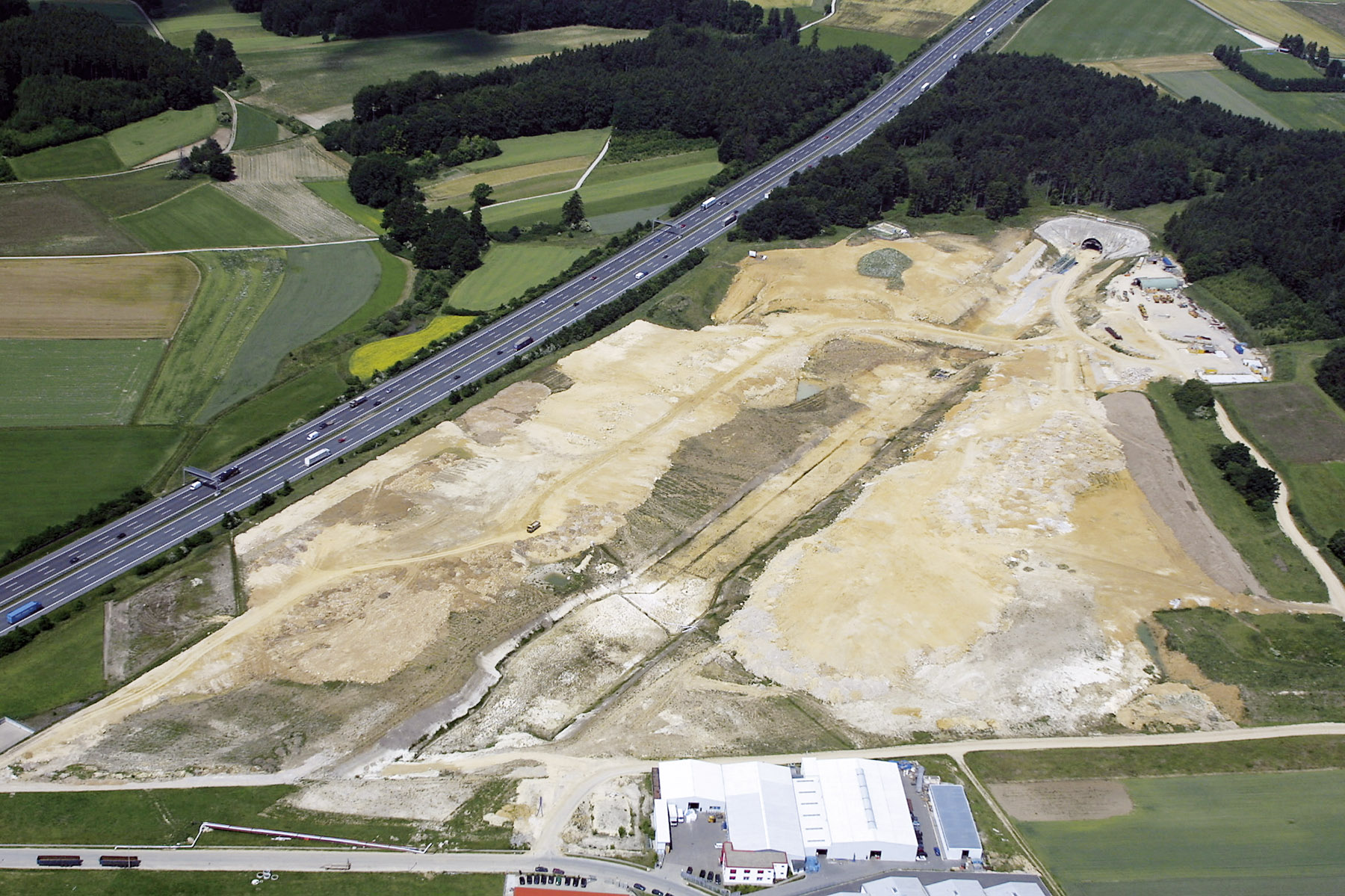 The Nuremberg-Ingolstadt high-speed railway line under construction, in 2001. The future track is being built next to the Autobahn 9 (on the left). Large-scale earthwork is being conducted in the area of the future Denkendorf Tunnel. On the bottom, some buildings of the Denkendorf business park can be seen. The southern portal of the Irlahüll Tunnel is already finsihed (top right).